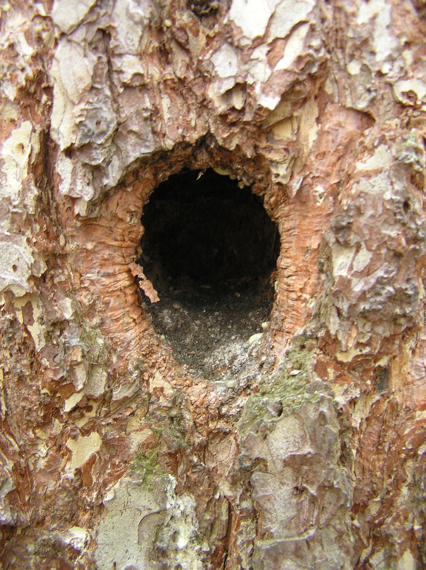 hollow dug by Dendrocopus sp. in Pinus sylvestris, Brok, Poland